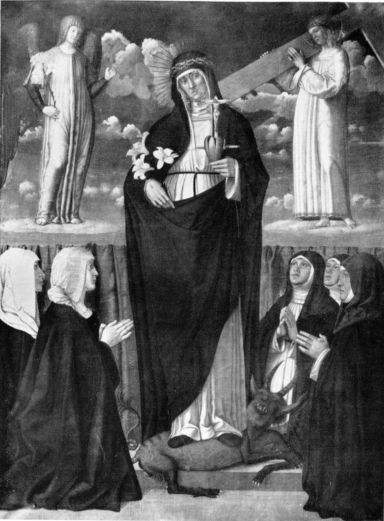 The Blessed Osanna by Francesco Bonsignori